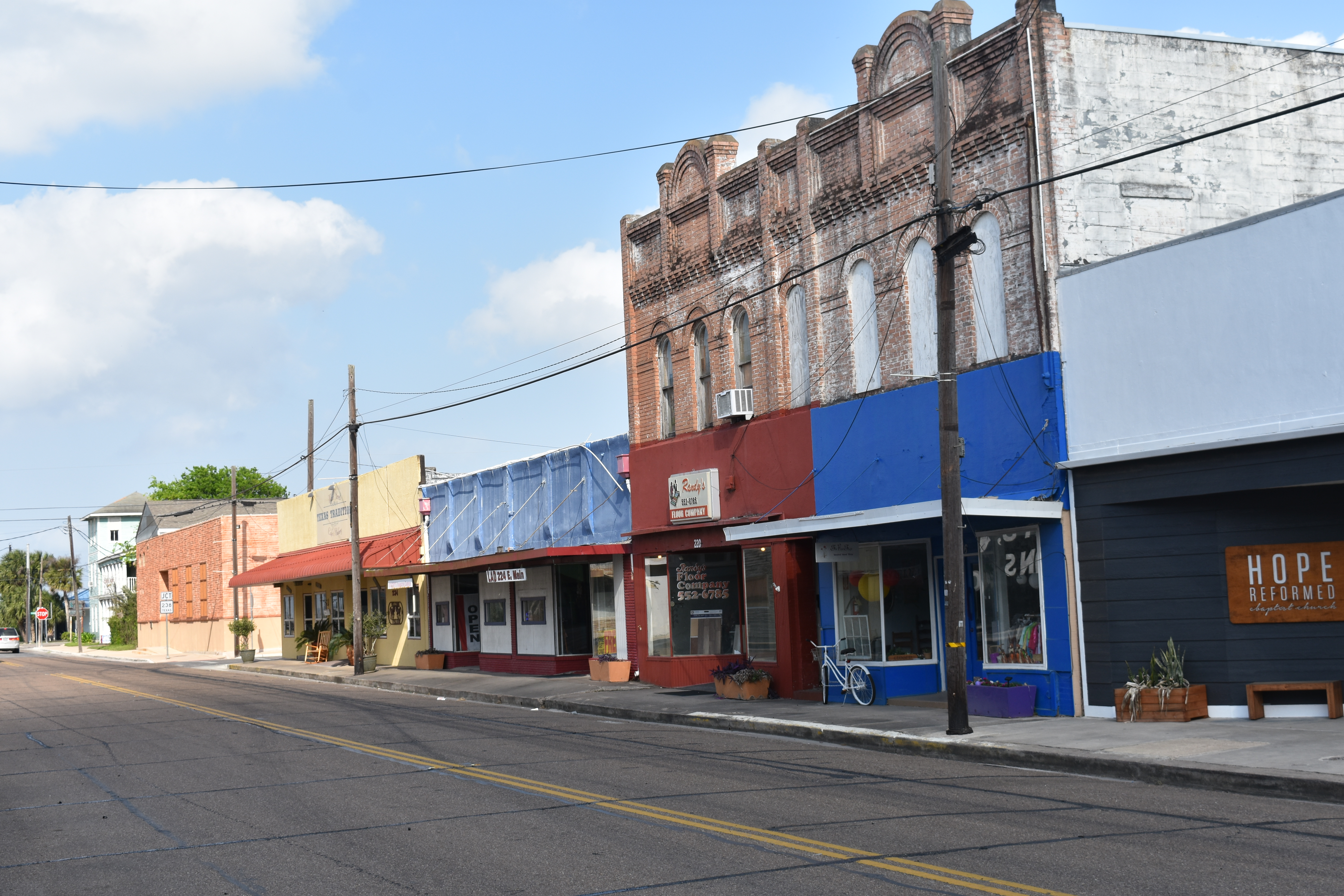 Main Street, Port Lavaca, Texas, USA